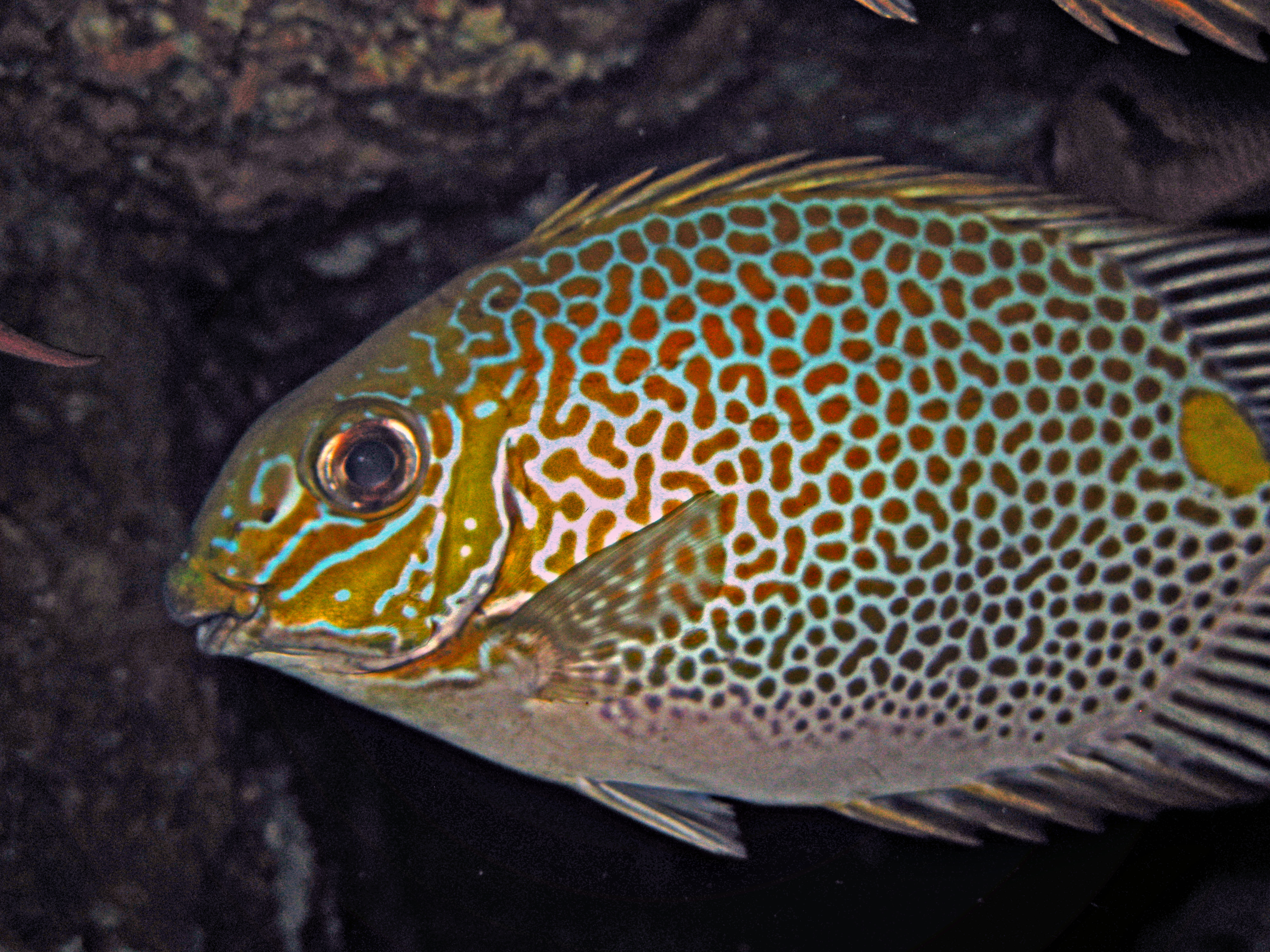 Gold - saddle Rabbitfish - Siganus guttatus; Thailand - Similan Islands - Christmas Point